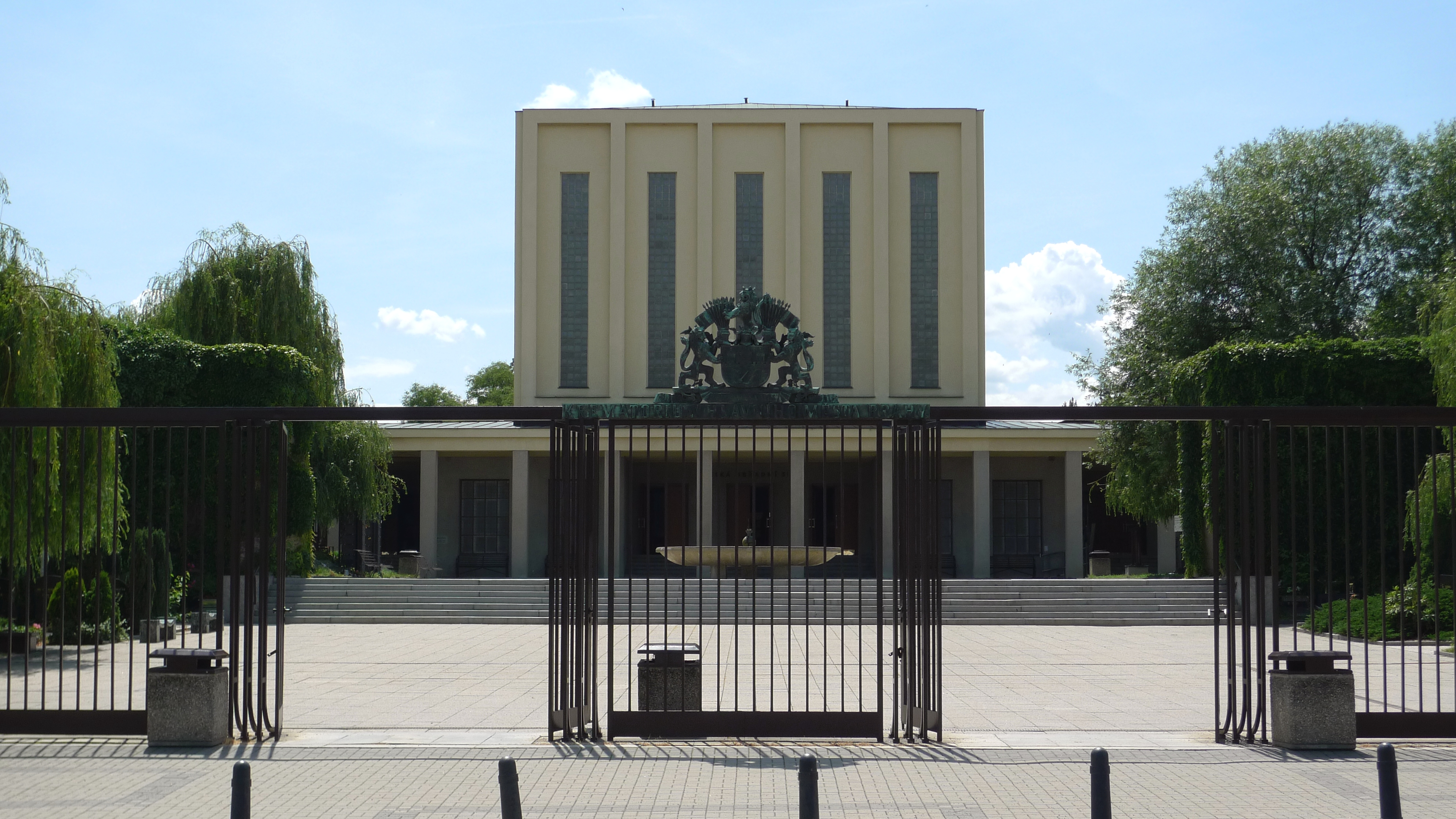 Crematory in Strašnice, Prague, Czech Republic